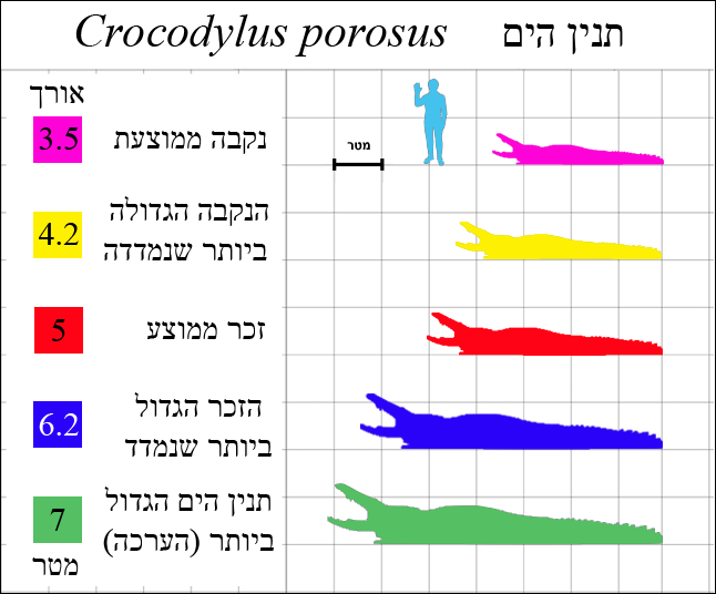 Size of Crocodylus porosus (Saltwater Crocodile) in Hebrew